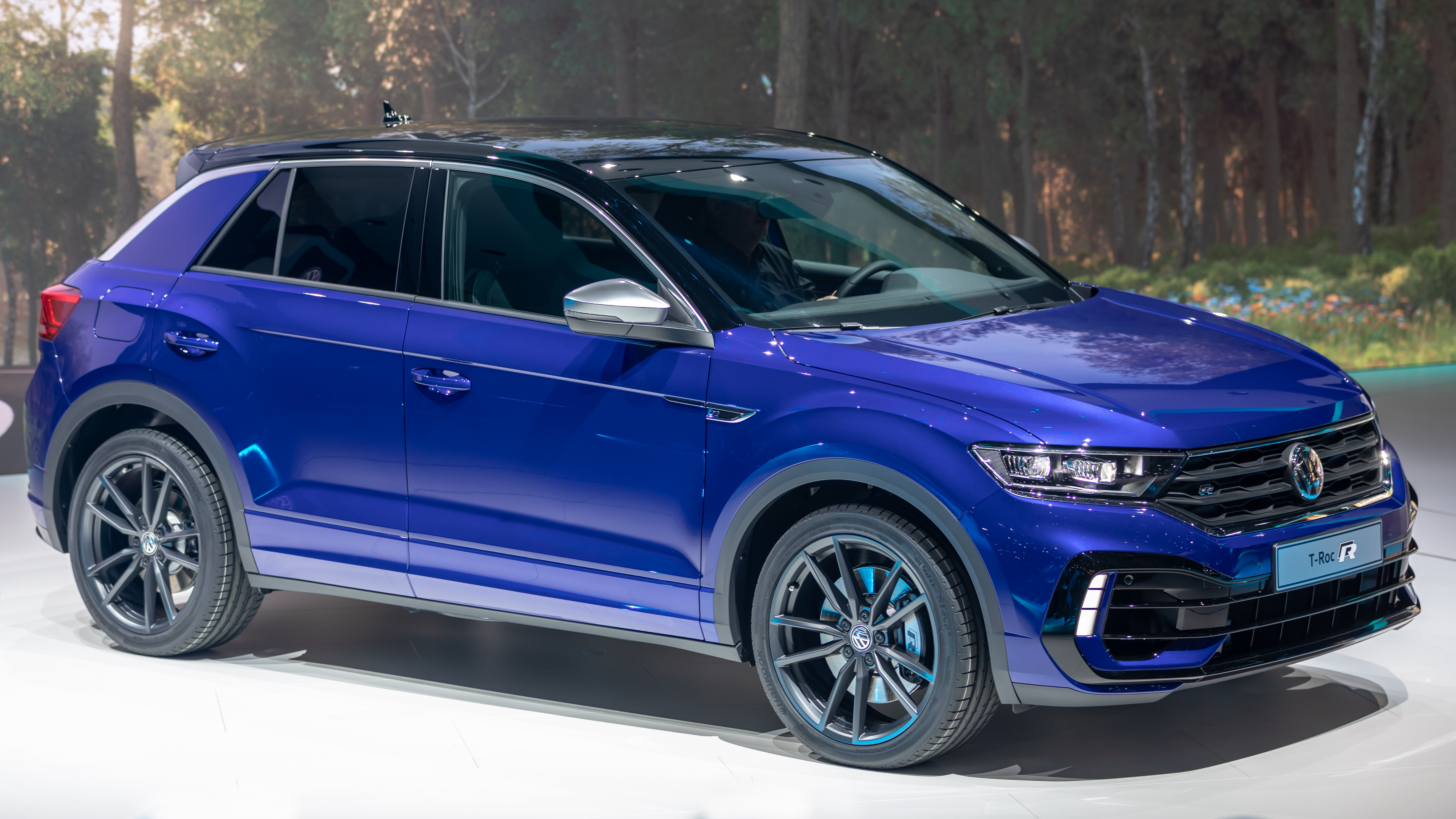 Volkswagen T-Roc R at Geneva International Motor Show 2019, Le Grand-Saconnex